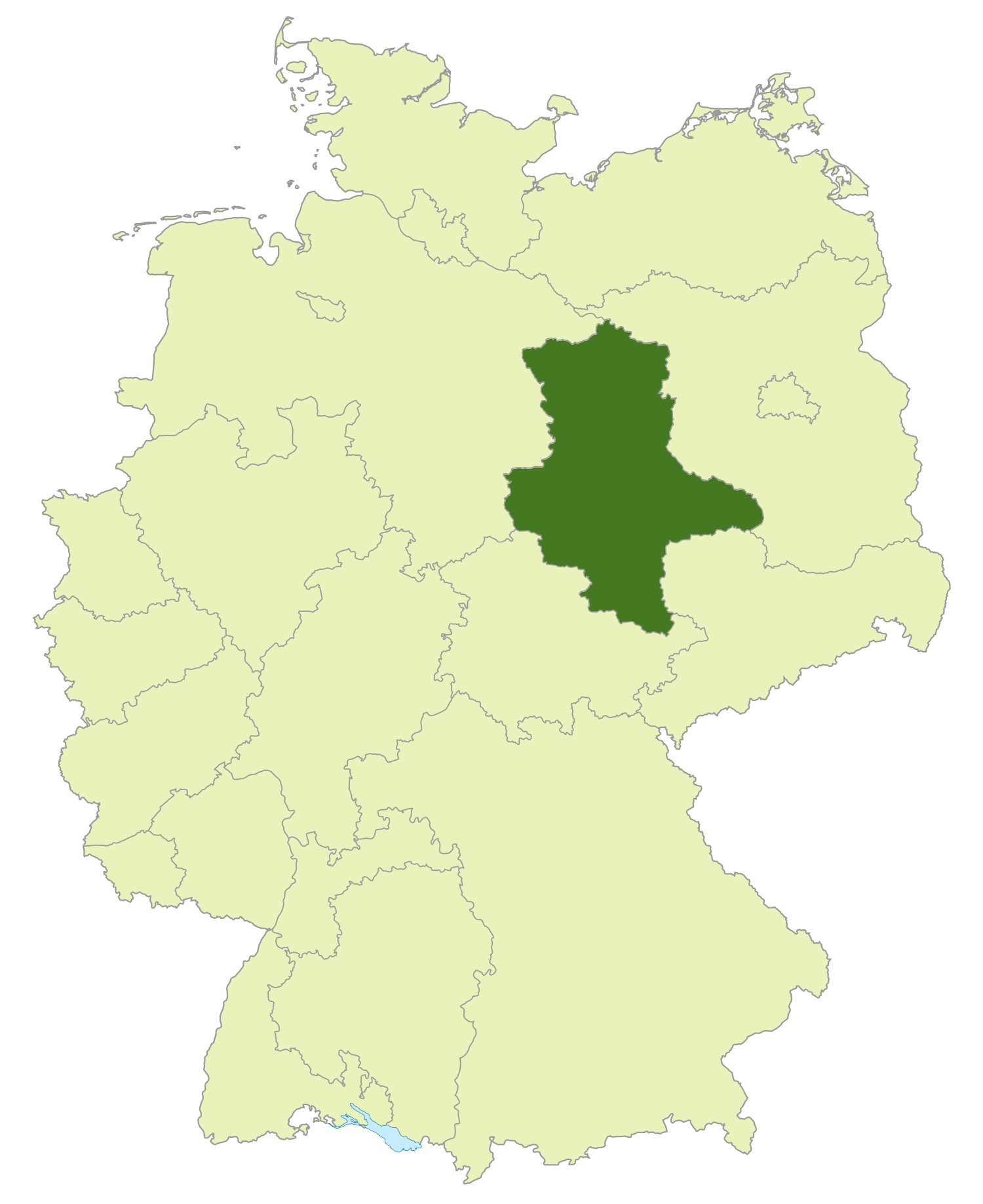 Map of regional soccer association Sachsen-Anhalt, Germany